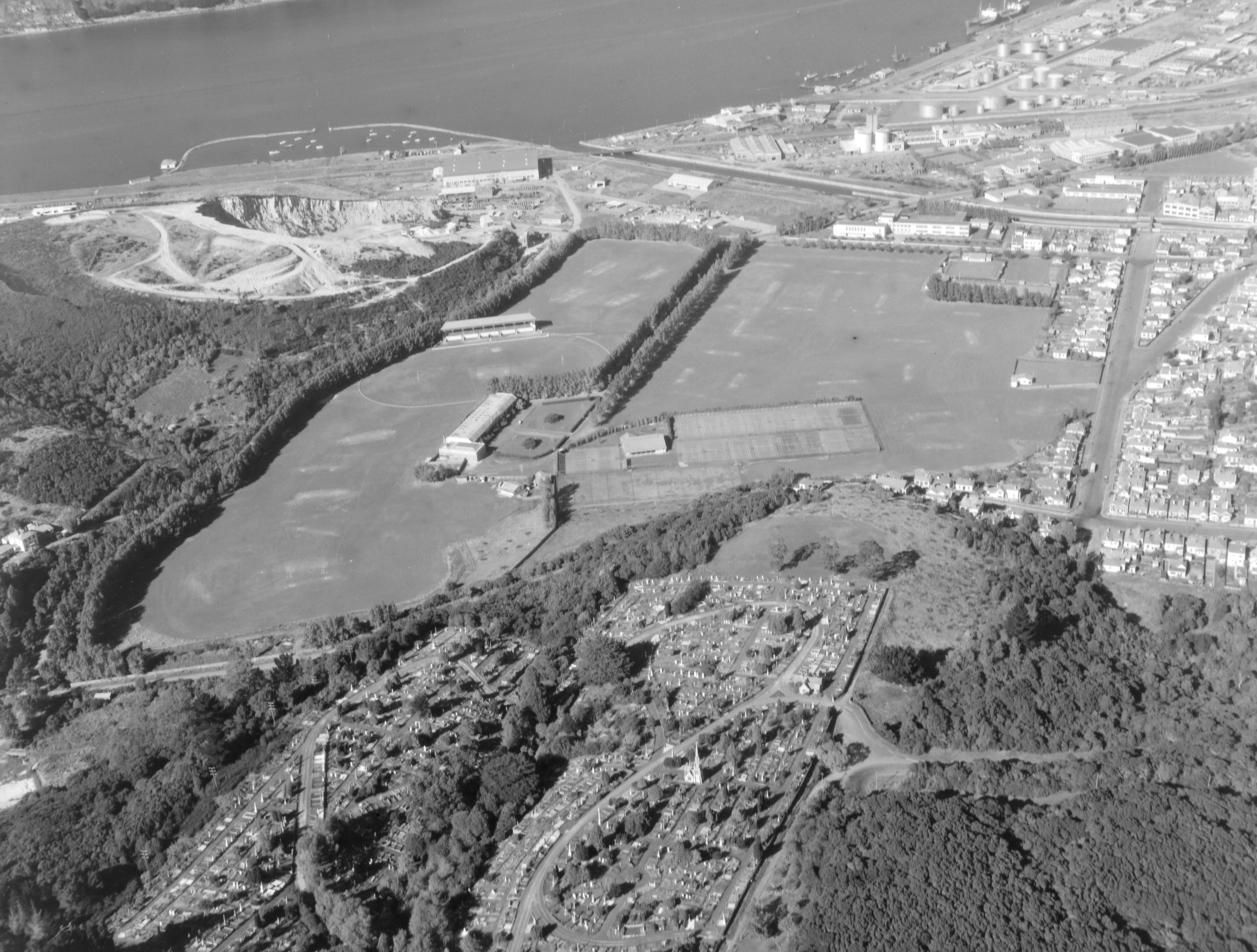 Logan Park, Dunedin. Aerial photograph taken by Whites Aviation.